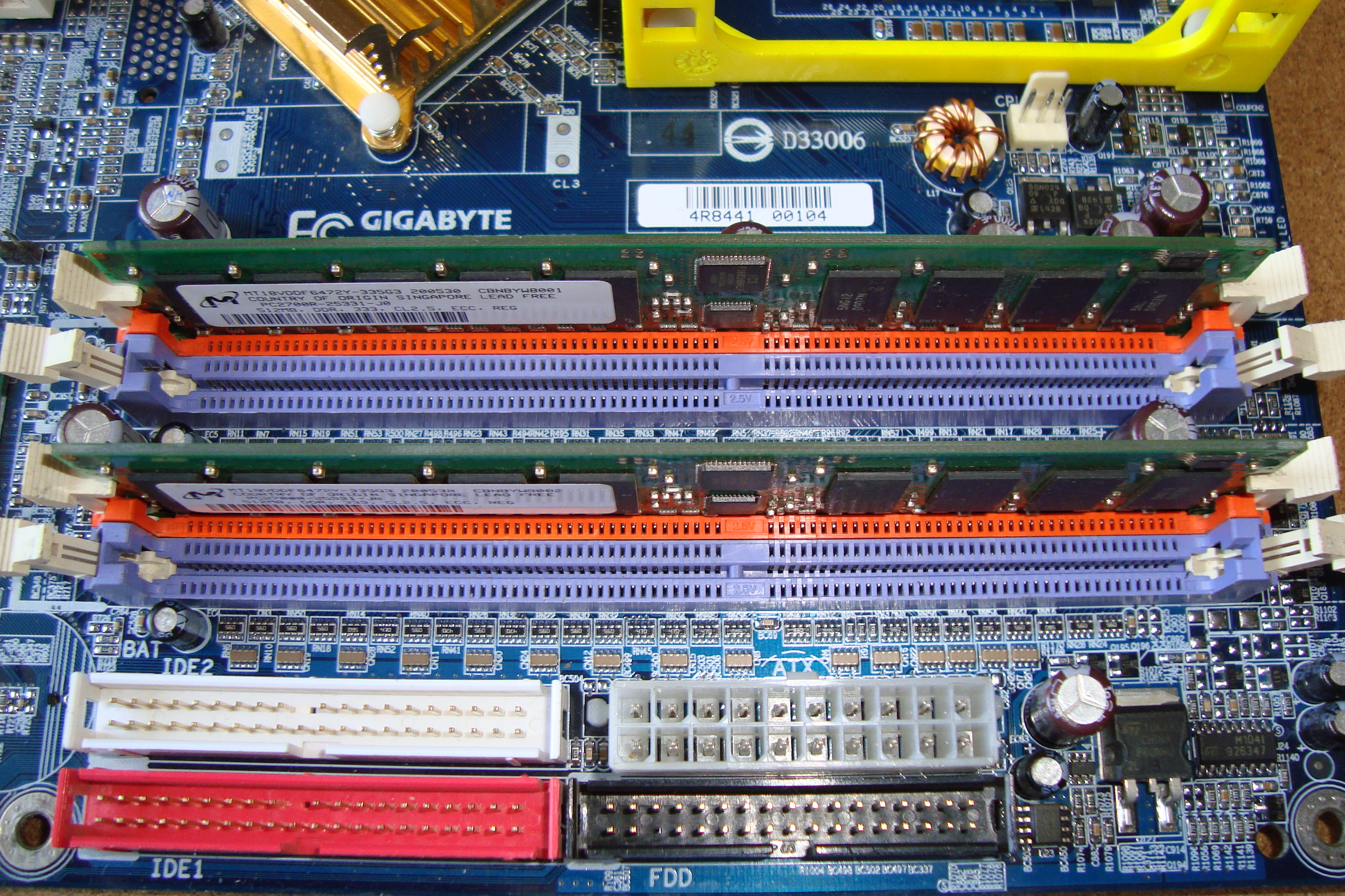 Dual-channel architecture memory modules use.